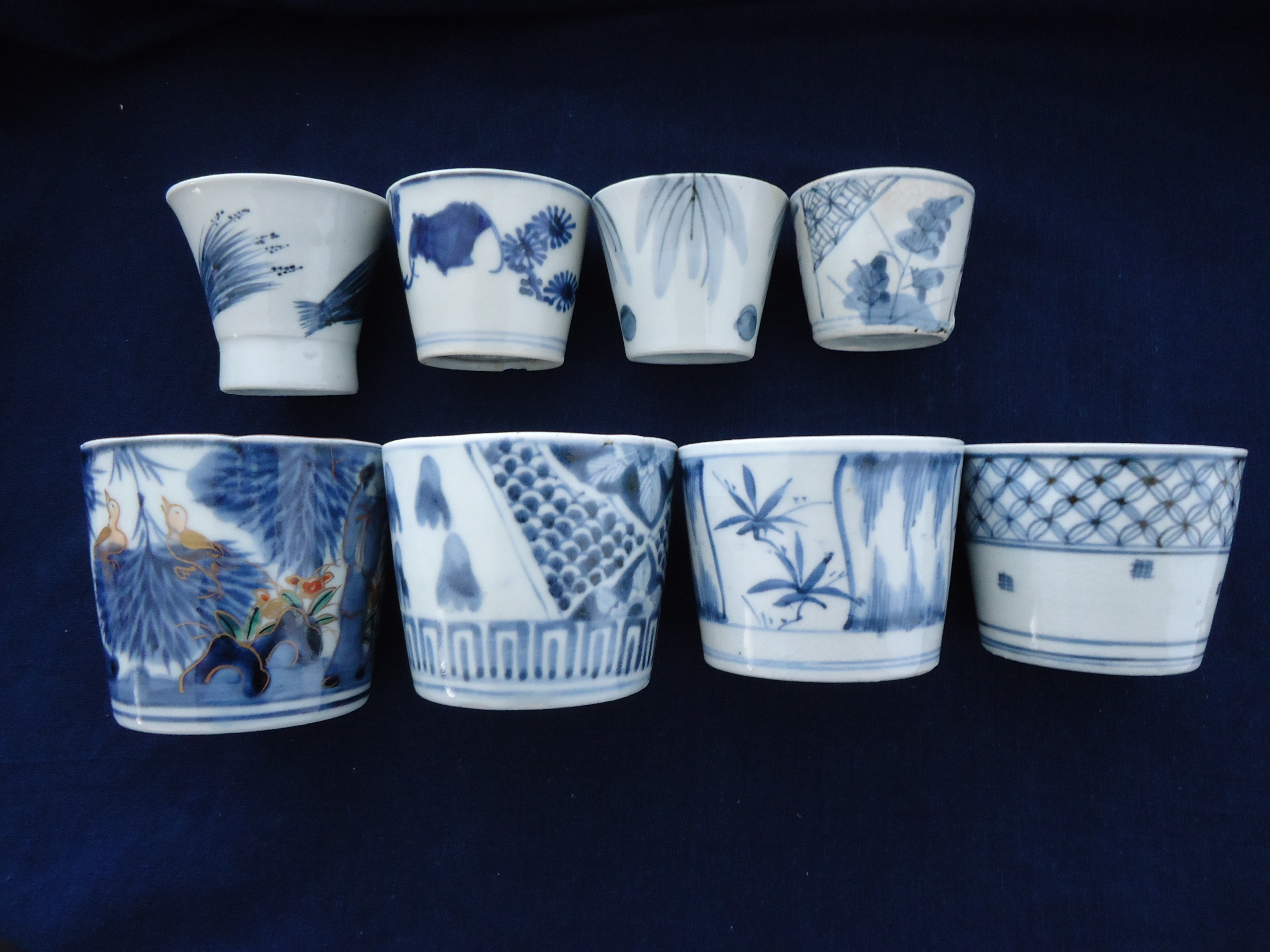 Soba-choko size did vary greatly. The smallest choko were used for sake and were called nozoki.